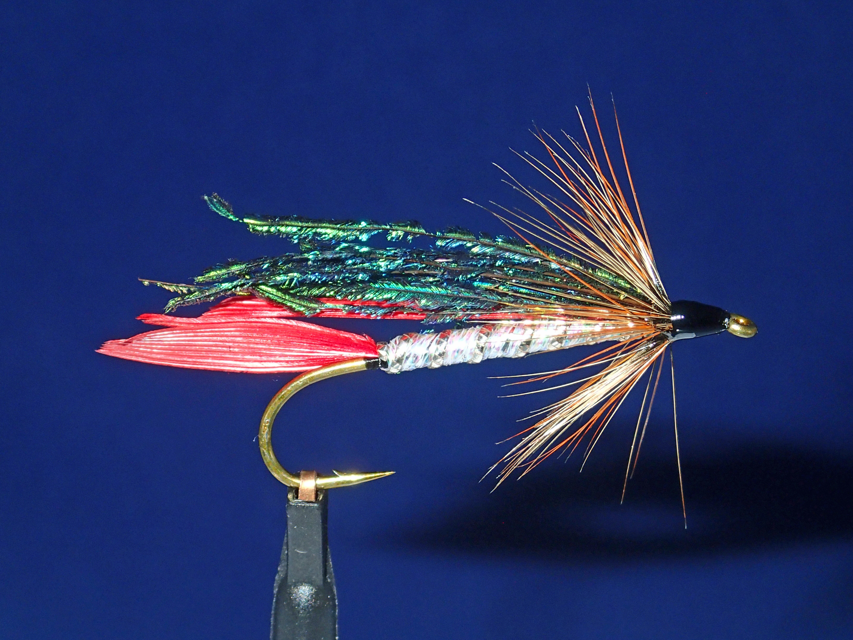 Alexandra Wet Fly